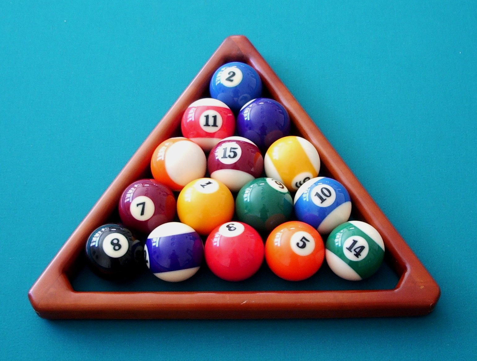 Racking up a game of cribbage pool, with the 15 ball in the middle, no two corner balls adding up to 15, and the apex ball on the foot spot. This is a closeup; see Image:Cribbage_pool_rack_big_view.jpg and Image:Cribbage_pool_rack_medium_view.jpg for a whole-table view, and a cropped version of same, respectively.